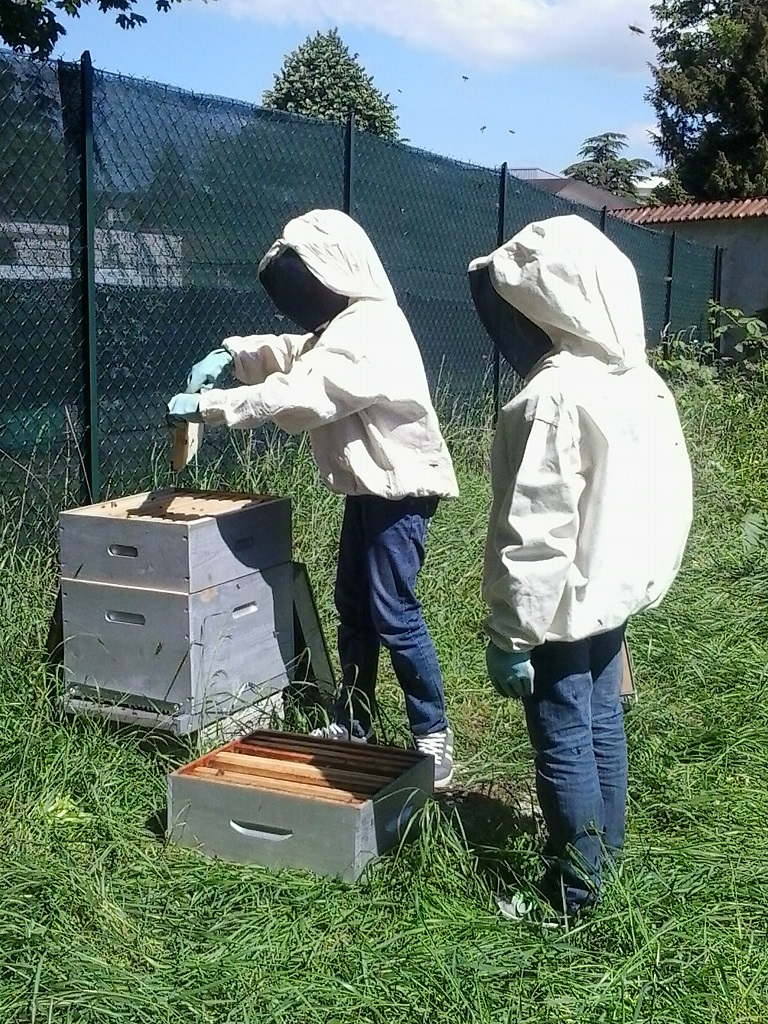 Pupils of college Augustin Thierry